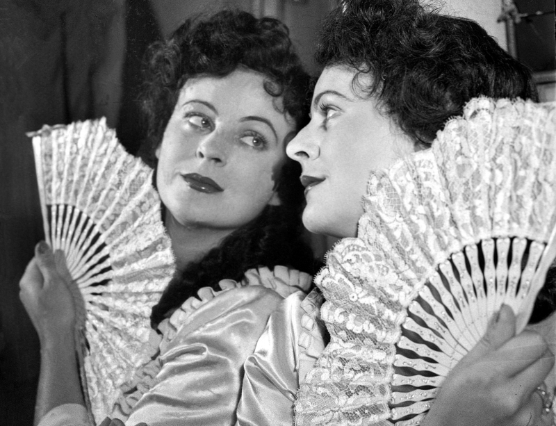 Wilma Lipp (1925–2019), Austrian operatic soprano.Italian singer in the opera Capriccio by Richard Strauss. Performance in the Festspielhaus at the Salzburg Festival.